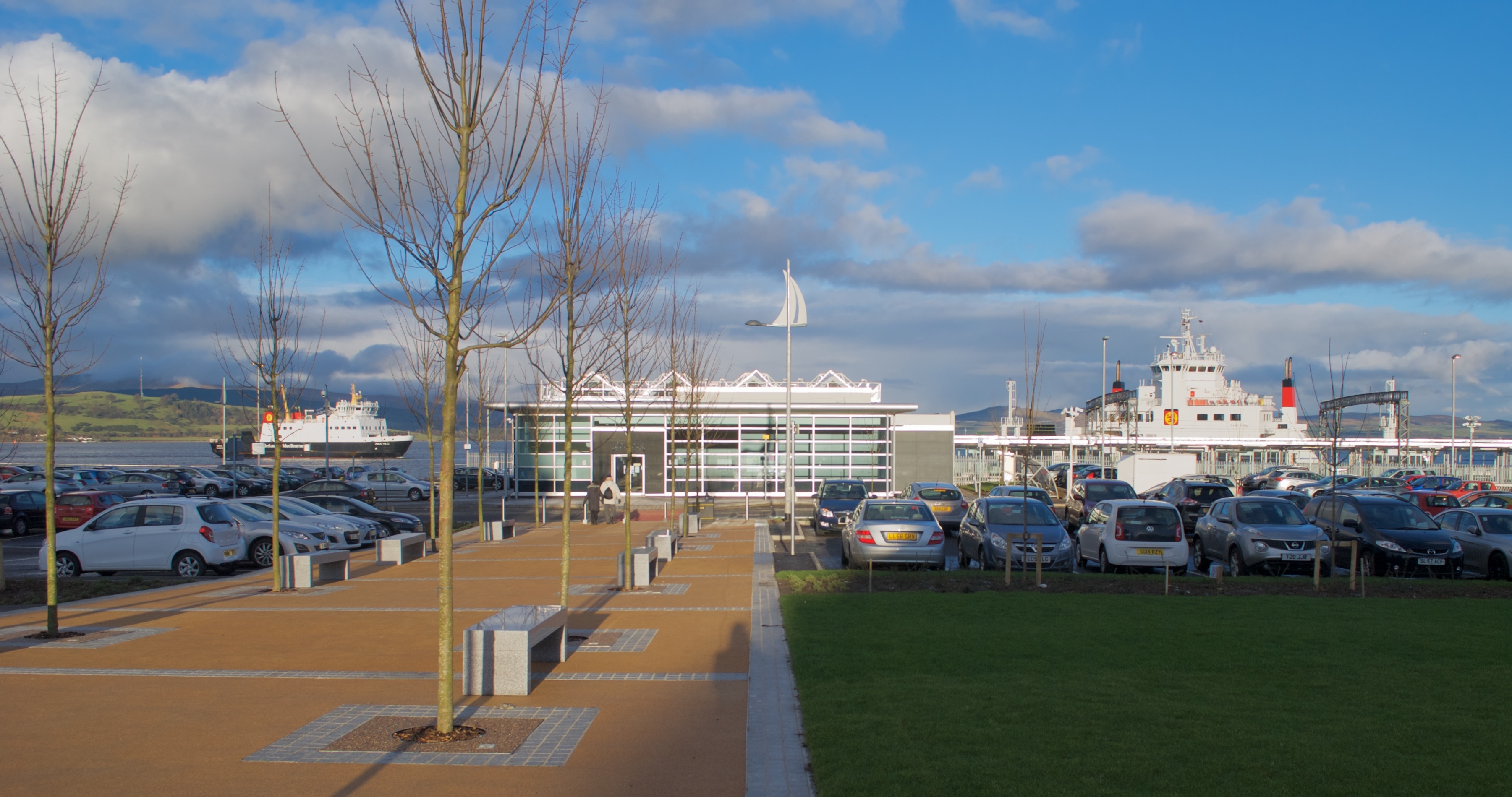 Gourock pierhead, with the new approach to Gourock railway station in February 2016: MV Argyle waits to approach the pier, while to the right, MV Coruisk prepared to depart: both ferry were running from Gourock to Rothesay while major works were carried out on their usual port, Wemyss Bay pier.